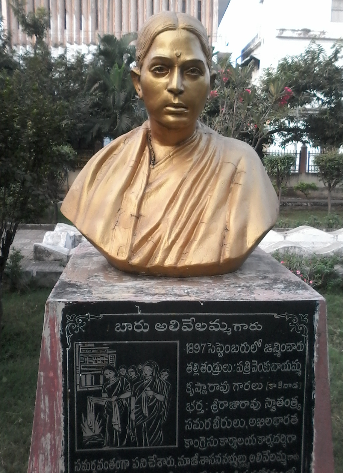 statue of baru alivenamma at rajahmundry